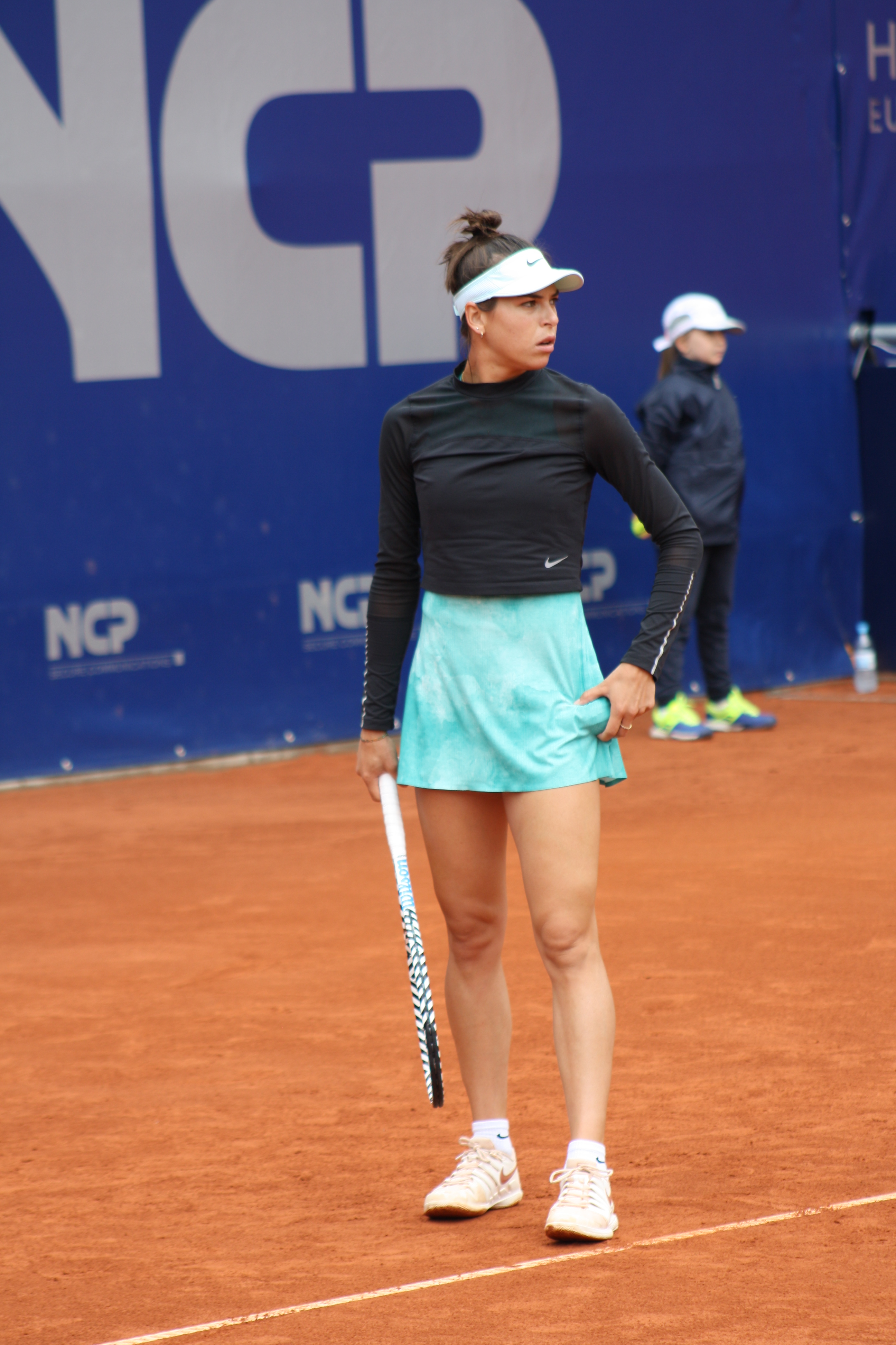 Ajla Tomljanović, May 2019